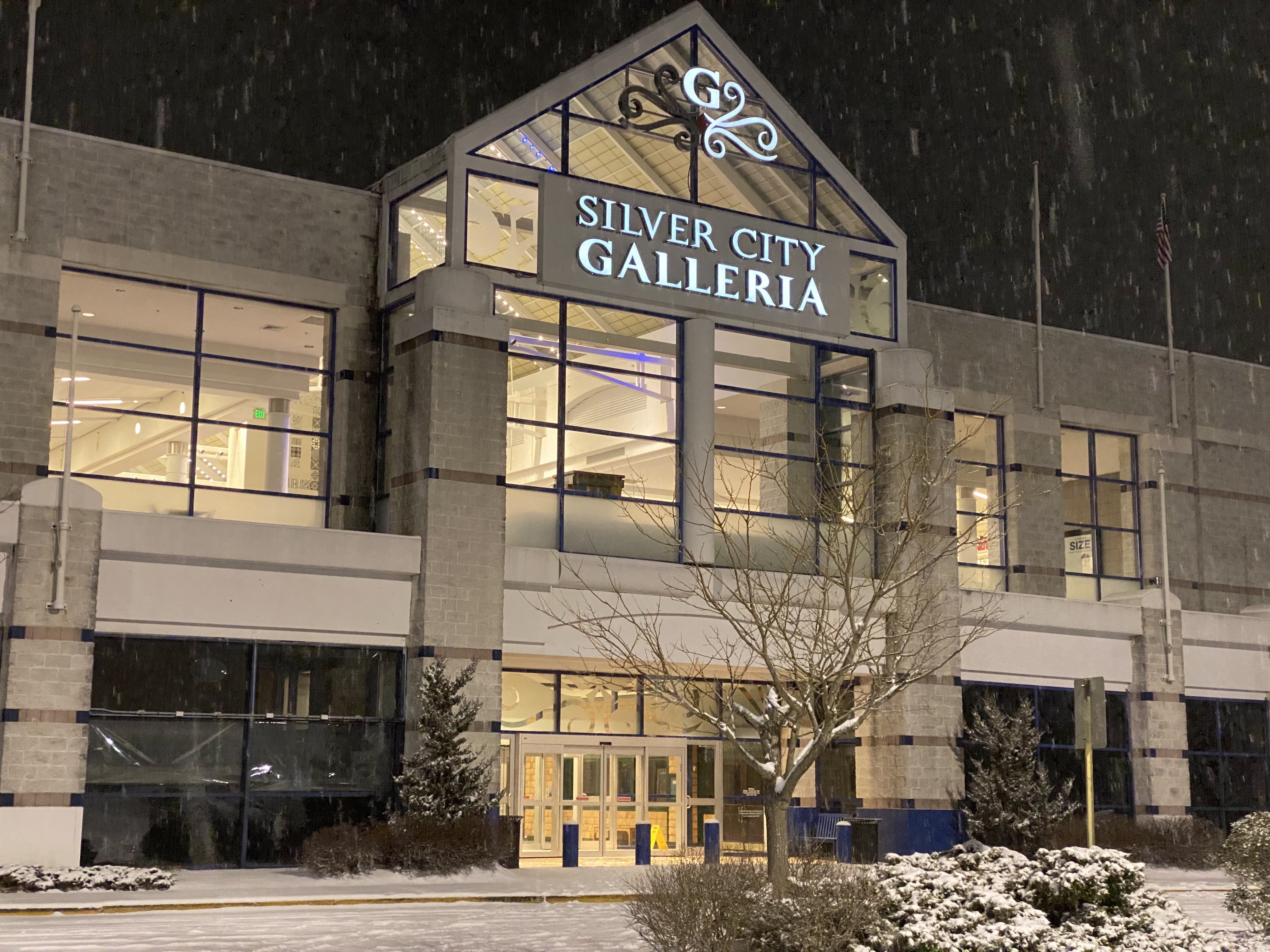 Food Court and restaurant wing of the Silver City Galleria in Taunton, Massachusetts. Taken January 2020.